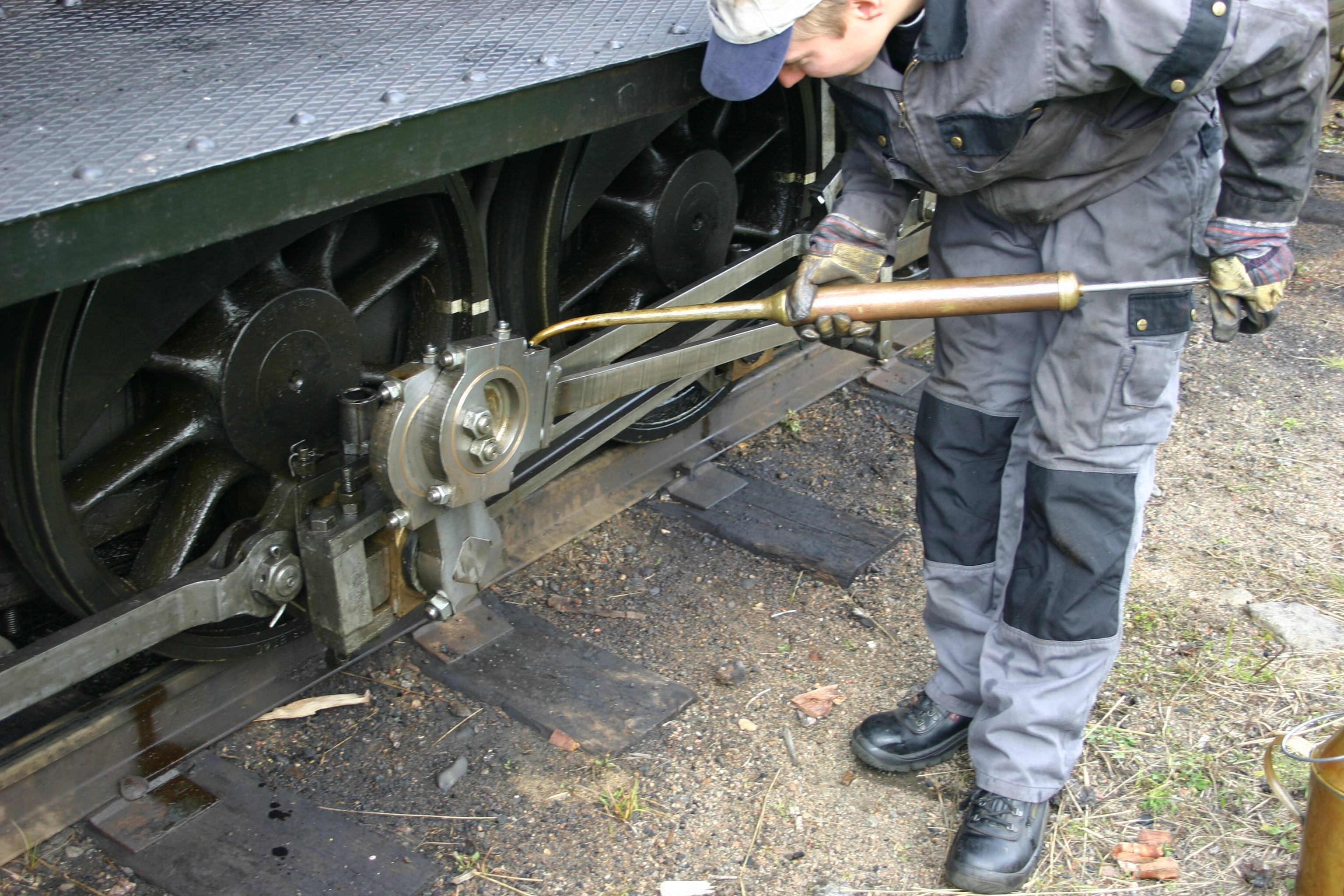 A fireman adding oil to an engine